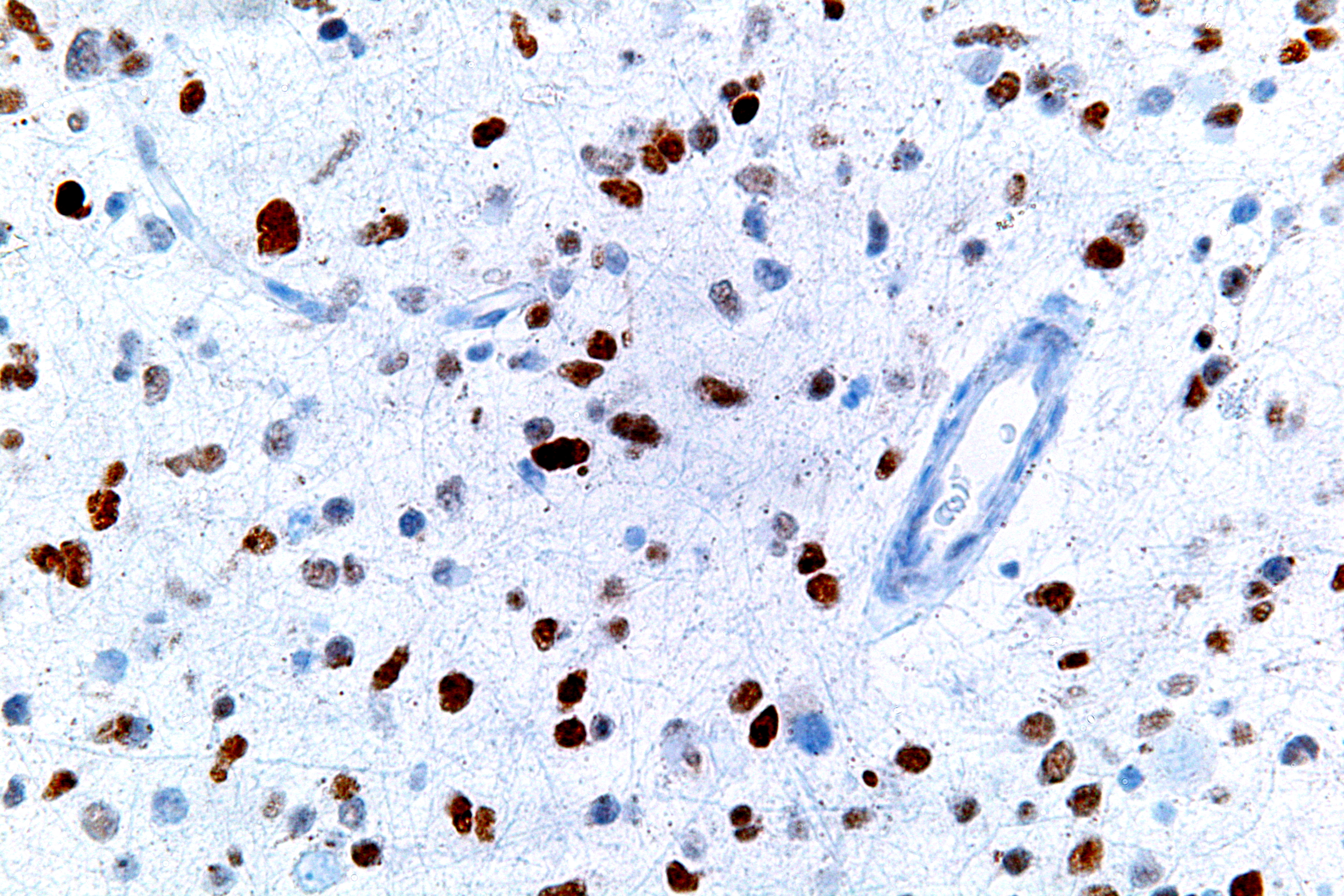 Very high magnification micrograph of an anaplastic astrocytoma.p53 immunostain. The typical features are present: Marked nuclear atypia. Elongated nuclei (consistent with derivation from an astrocyte ). Mitoses. Fine fibrillary processes (consistent with a glial cell population). Cytoplasmic staining of atypical cells with GFAP. p53 immunohistochemical stain positivity. High proliferative rate based on Ki-67 staining. Related images Low mag. Intermed. mag. High mag. Very high mag. GFAP. Very high mag. Ki-67. High mag.